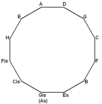 The circle of fifths in equal temperament. Eleven fifths are slightly too large in Pythagorean tuning and too small in meantone.